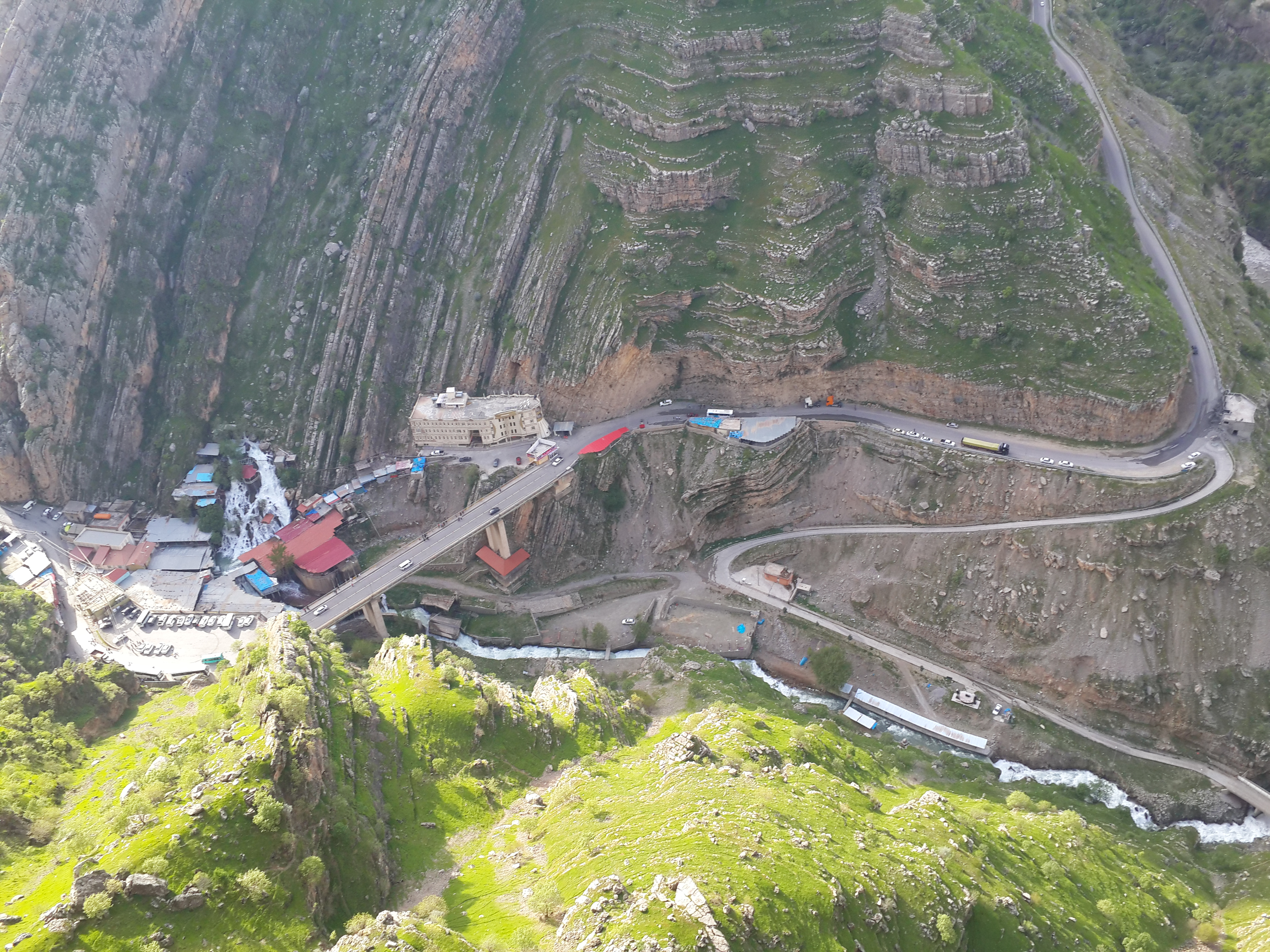 Erbil